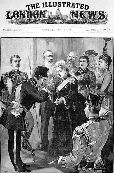 Naser al-Din Shah kiss Queen Victoria from Magazine cover dated July 13 1859.